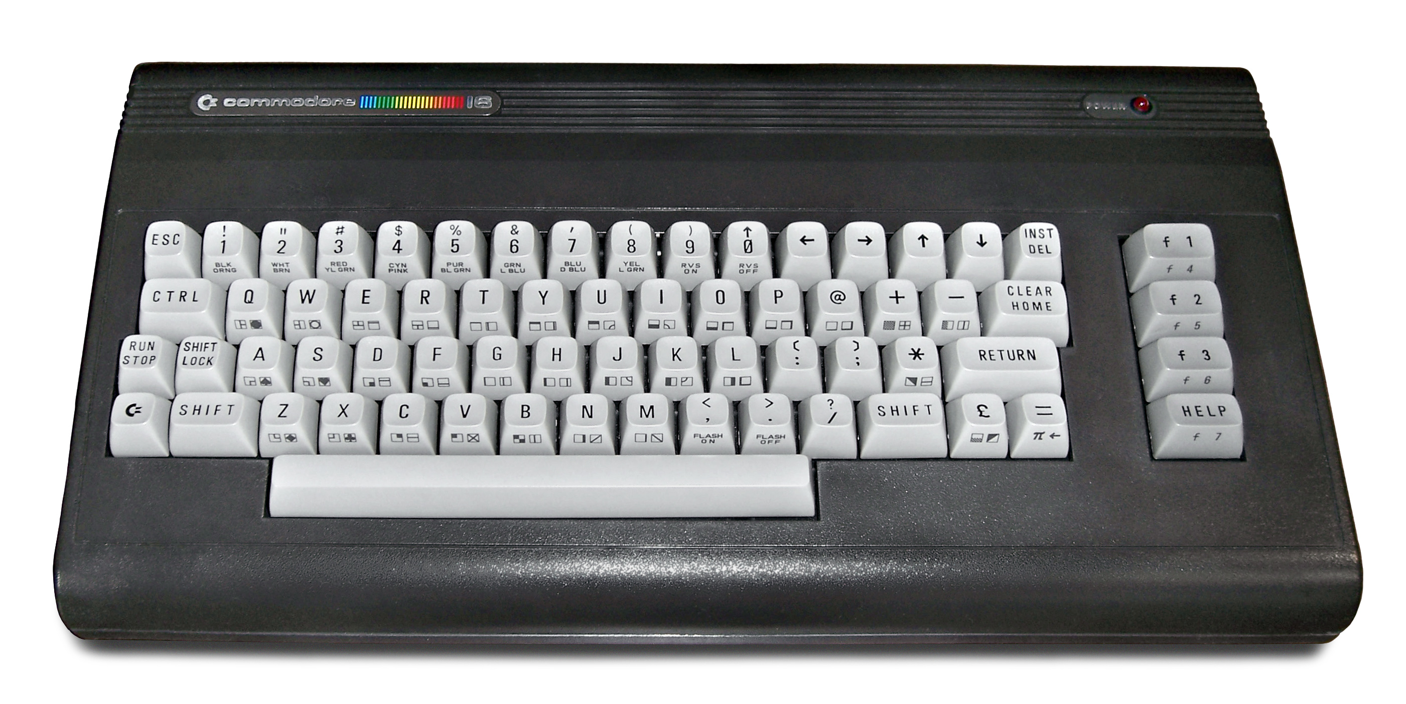 Commodore 16 home computer